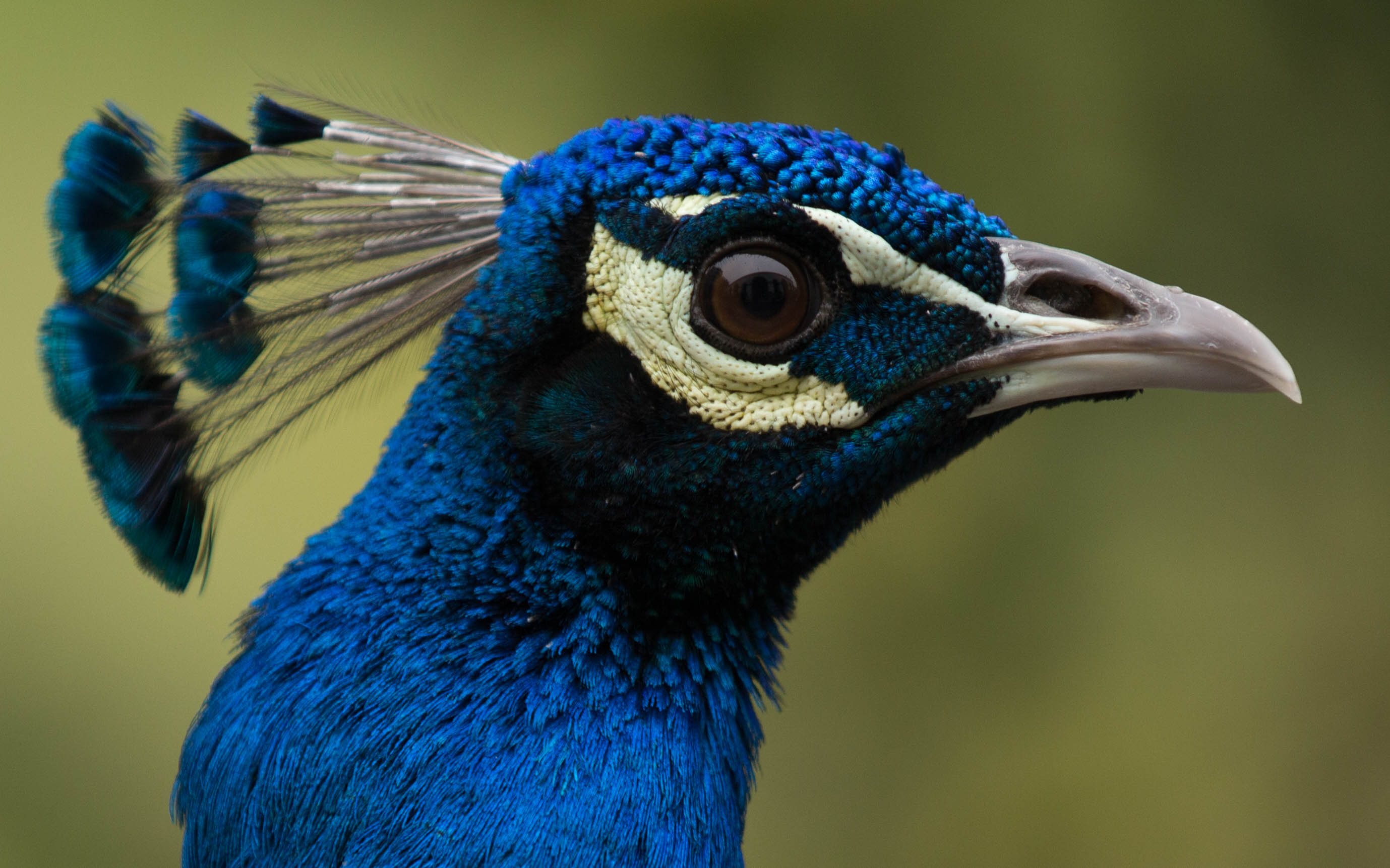 A peacock, Sultanpur National Park